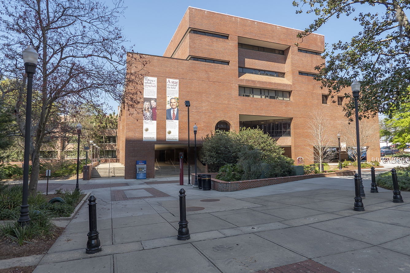 Florida State University College of Business' Rovetta Business Building A